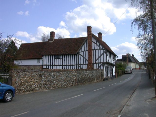 Hinxton High Street Houses late C16 or early C17 with later alterations and additions. Exposed timber-frame with plastered infill and cemented brick plinth. Tiled Roofs. Ridge stack, end stack to left hand and rear stack. Grade II listed.